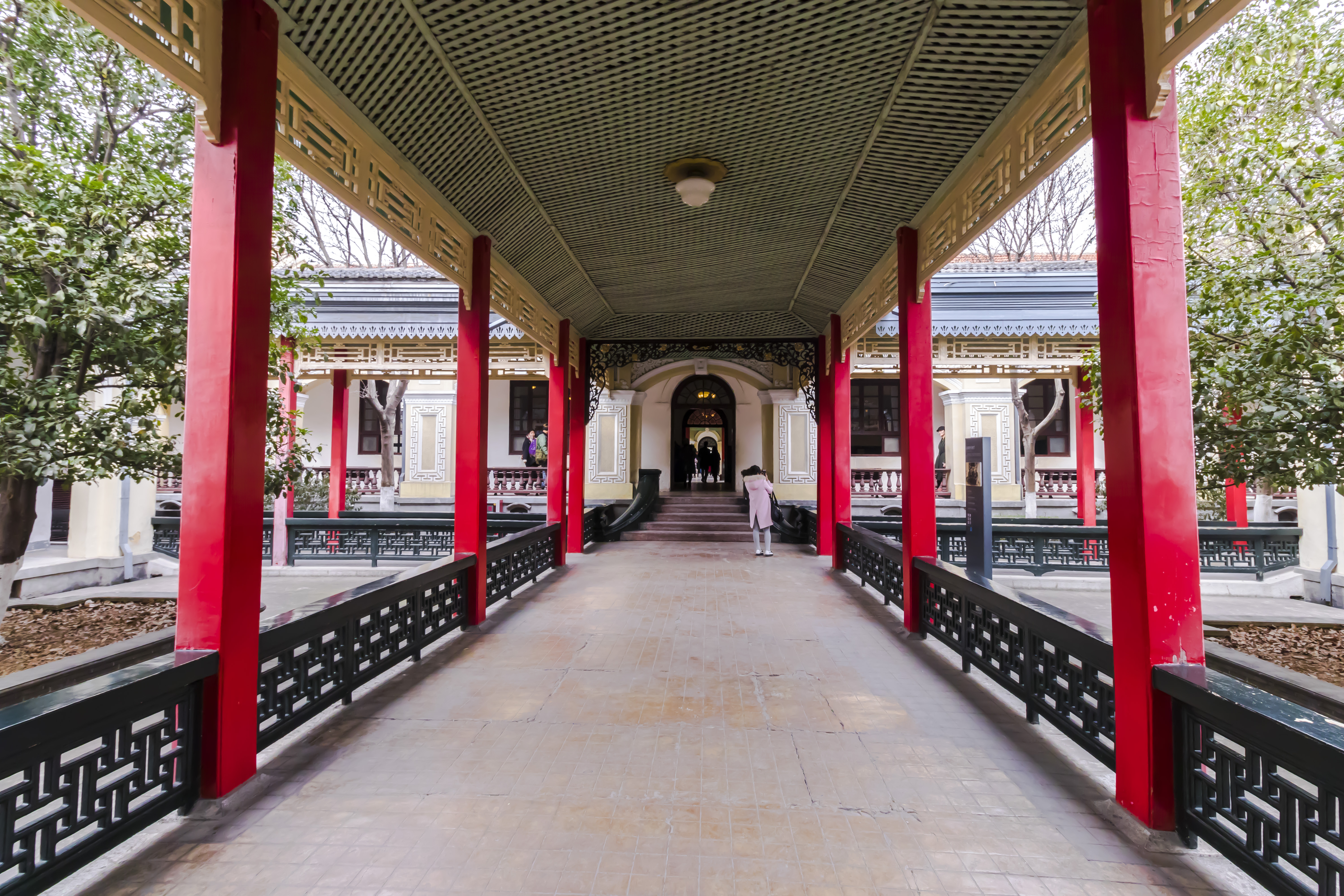 Reception Hall, Presidential Palace, Nanjing